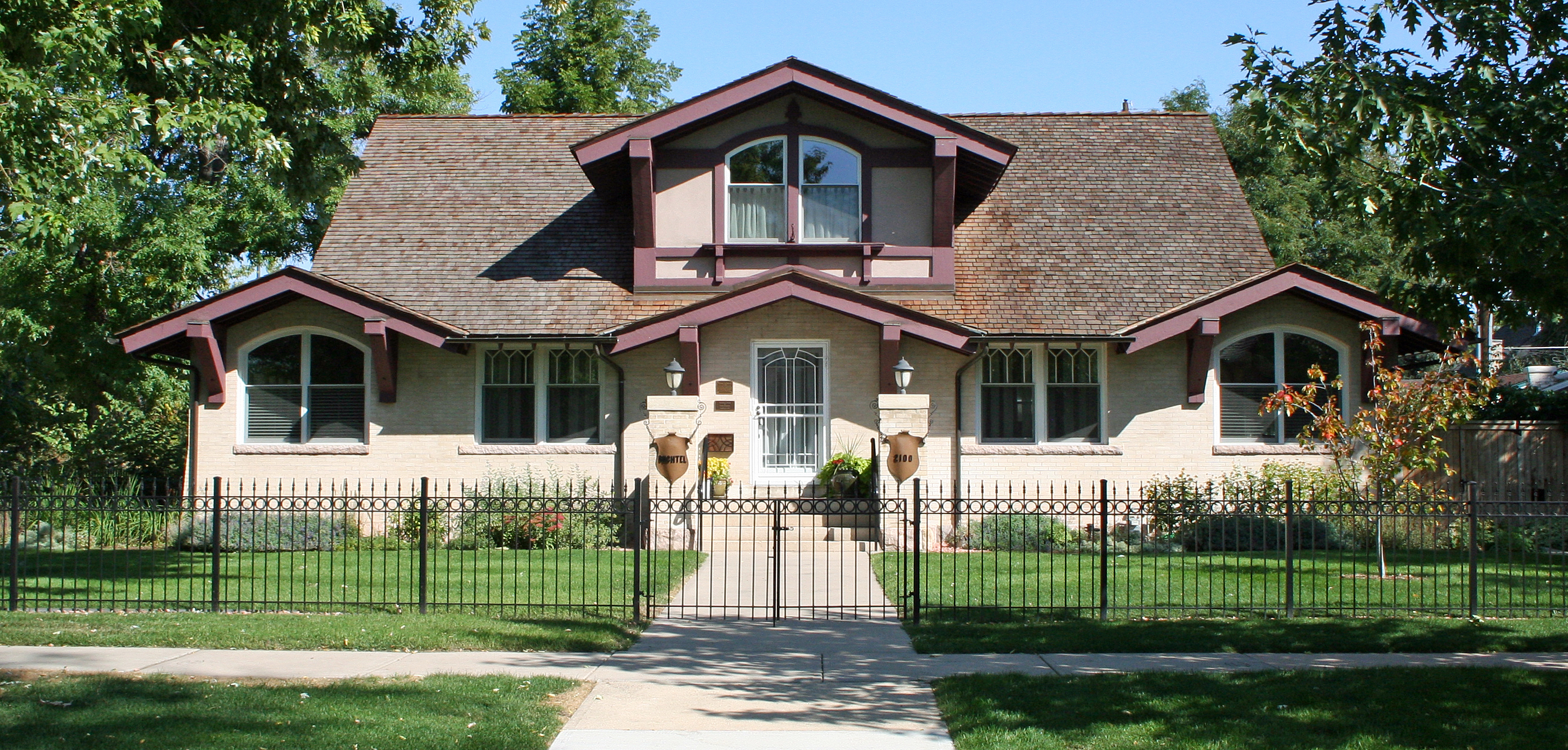 The Buchtel Bungalow, located at 2100 South Columbine Street in Denver, Colorado